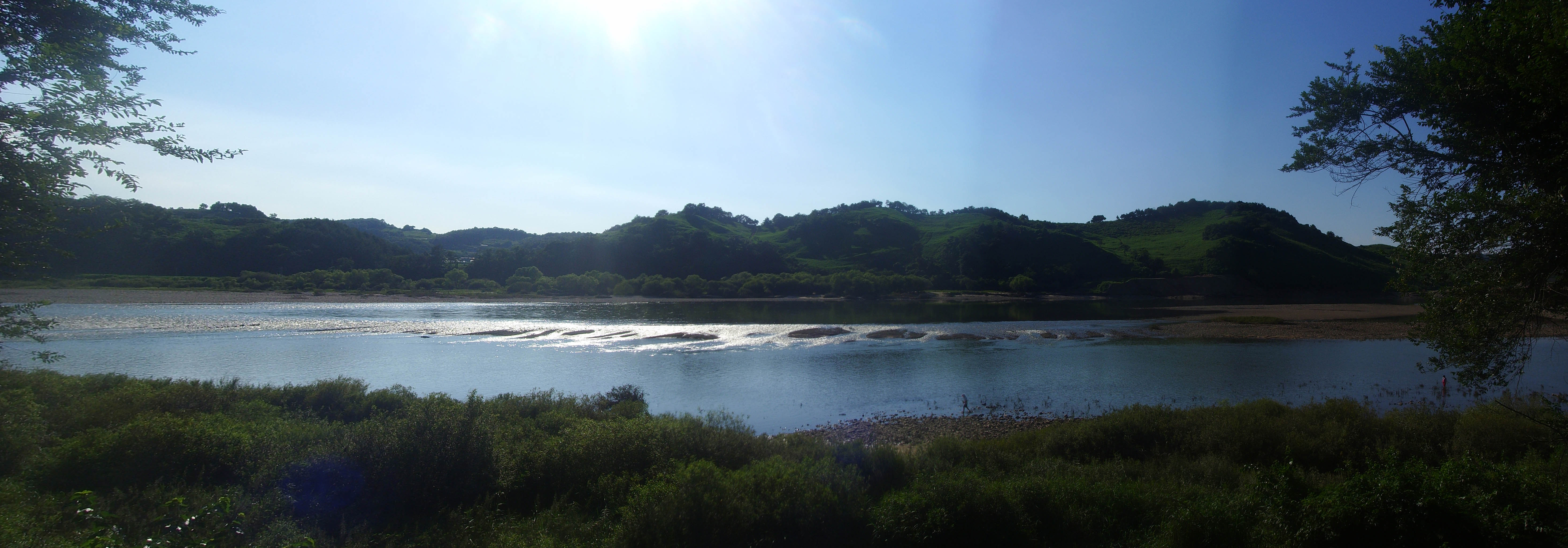 Imjin River